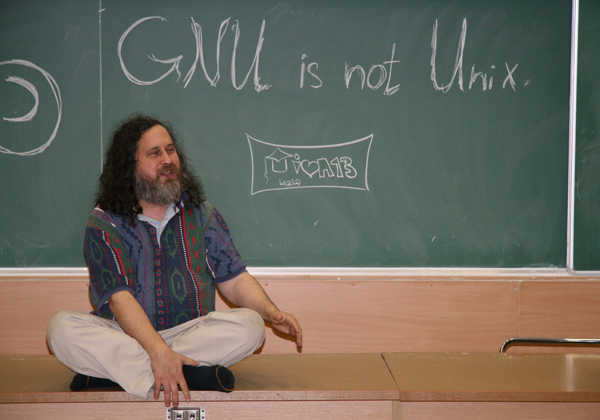 Richard Stallman in Moscow State University